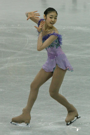 Kim Yu-Na(KOR) during her short program at the 2008 Worlds.